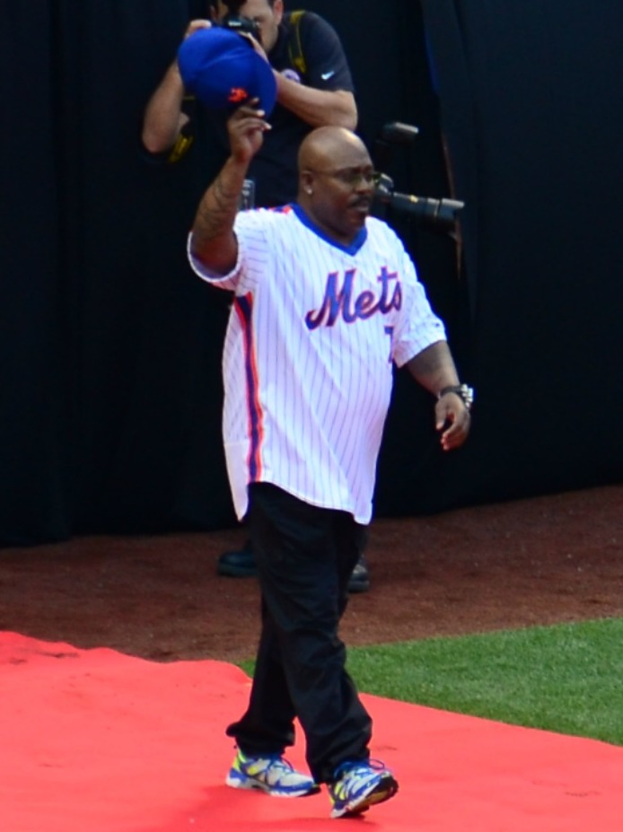 Kevin Mitchell doffs his cap to the crowd at the 30th anniversary celebration of the New York Mets' 1986 World Series championship.